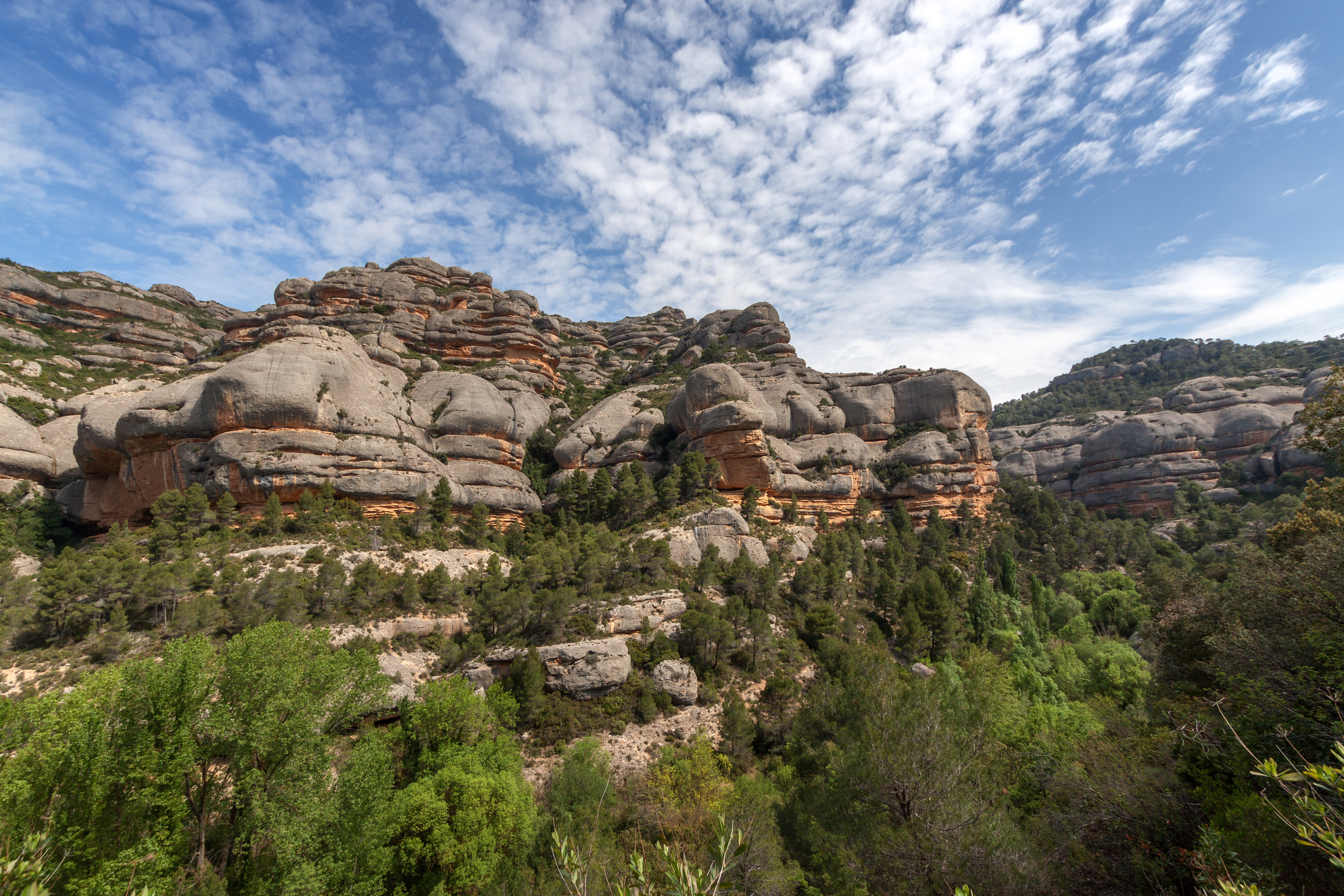 This is a photography of a Site of Community Importance in Spain with the ID: ES5140017. Natura2000 entry, EEA entry